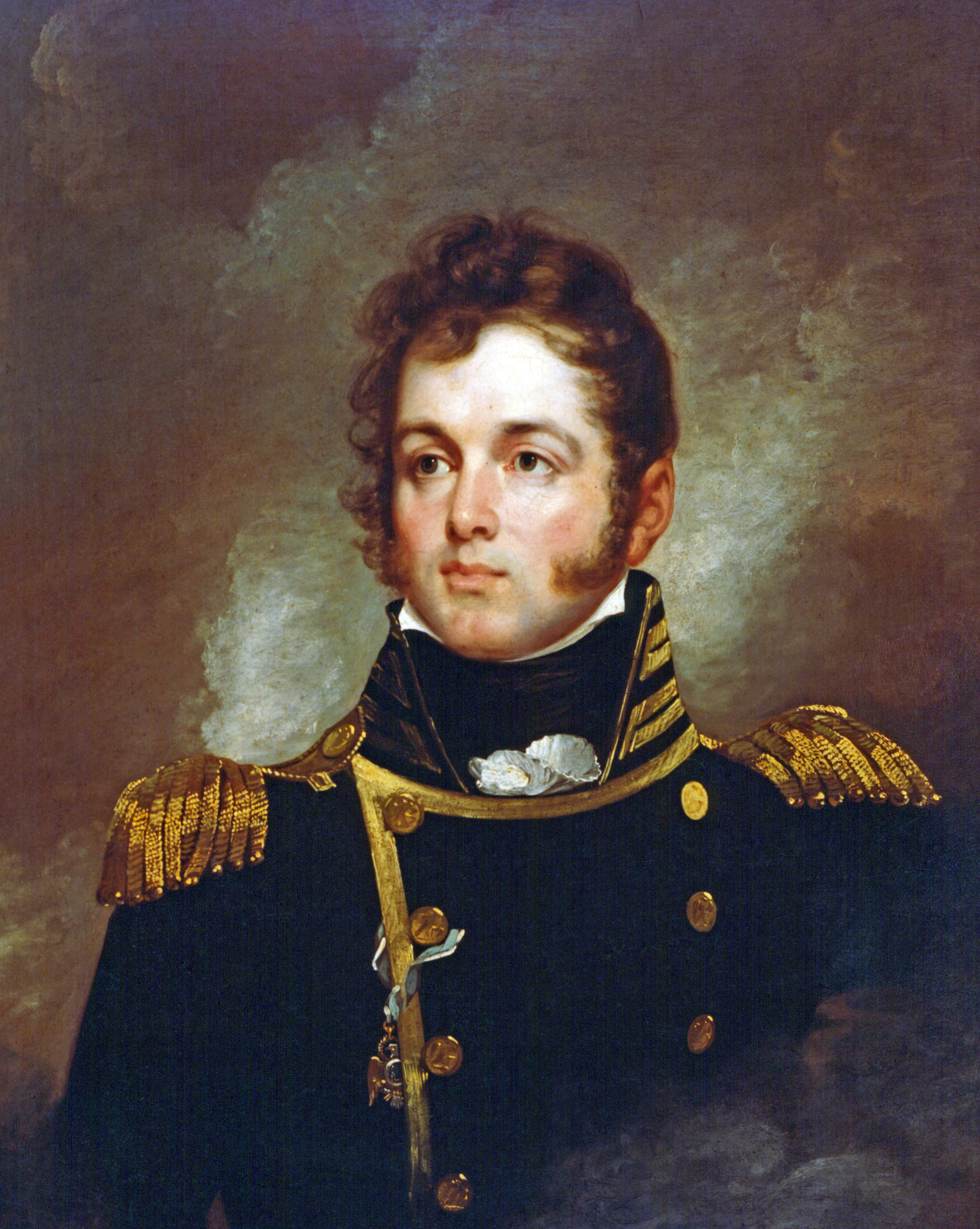 Portrait of Captain Oliver Hazard Perry, USN (1785-1819)